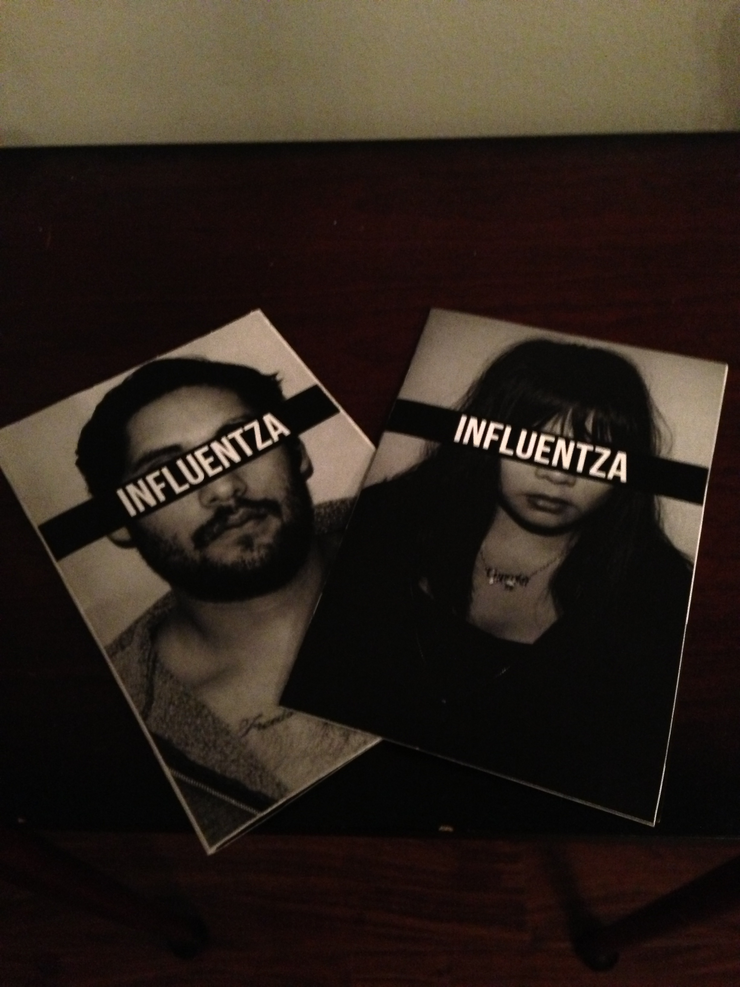 Zine about Influence in Society. From Long Beach, CA